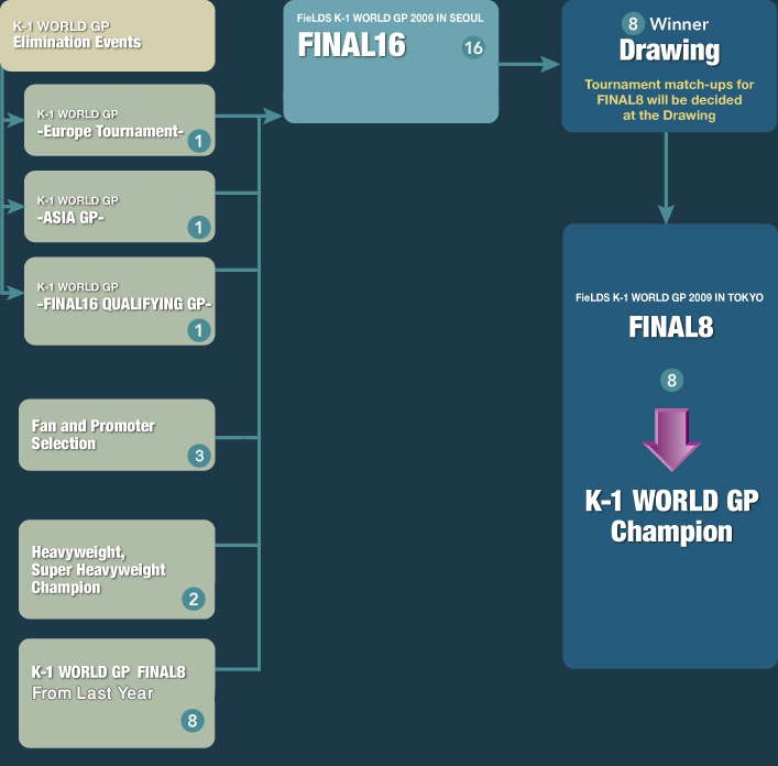 K-1 Qualifying System ( 2009 Update )